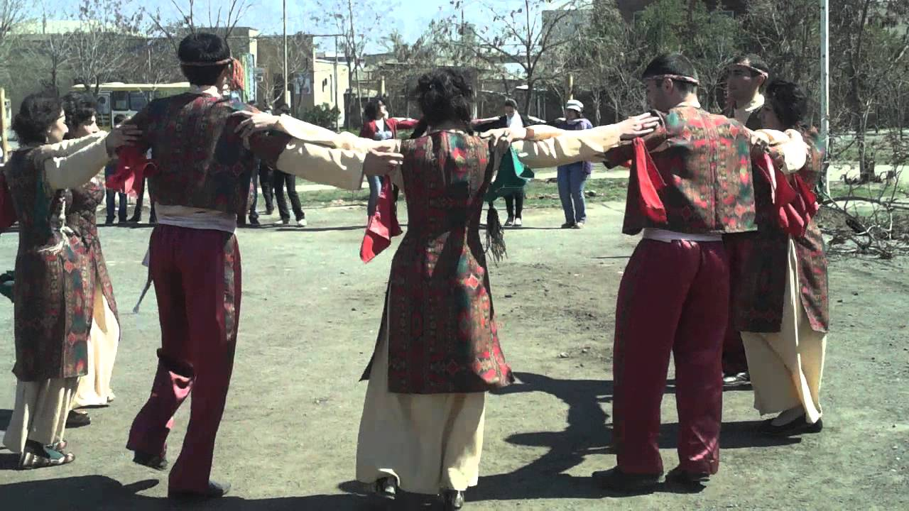 "Masunq" dance ensemble dances Armenian dance "Papuri"